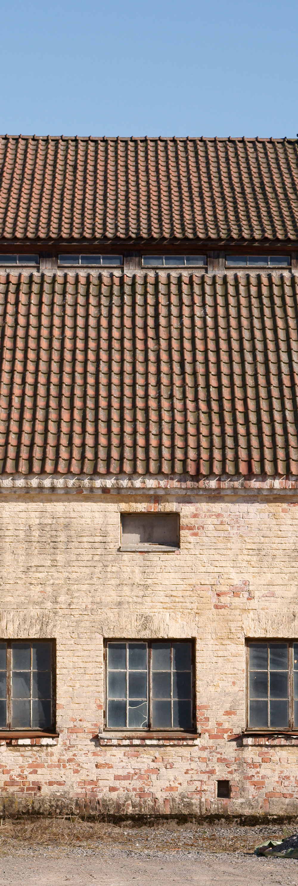 Facade of a house in Yyteri.